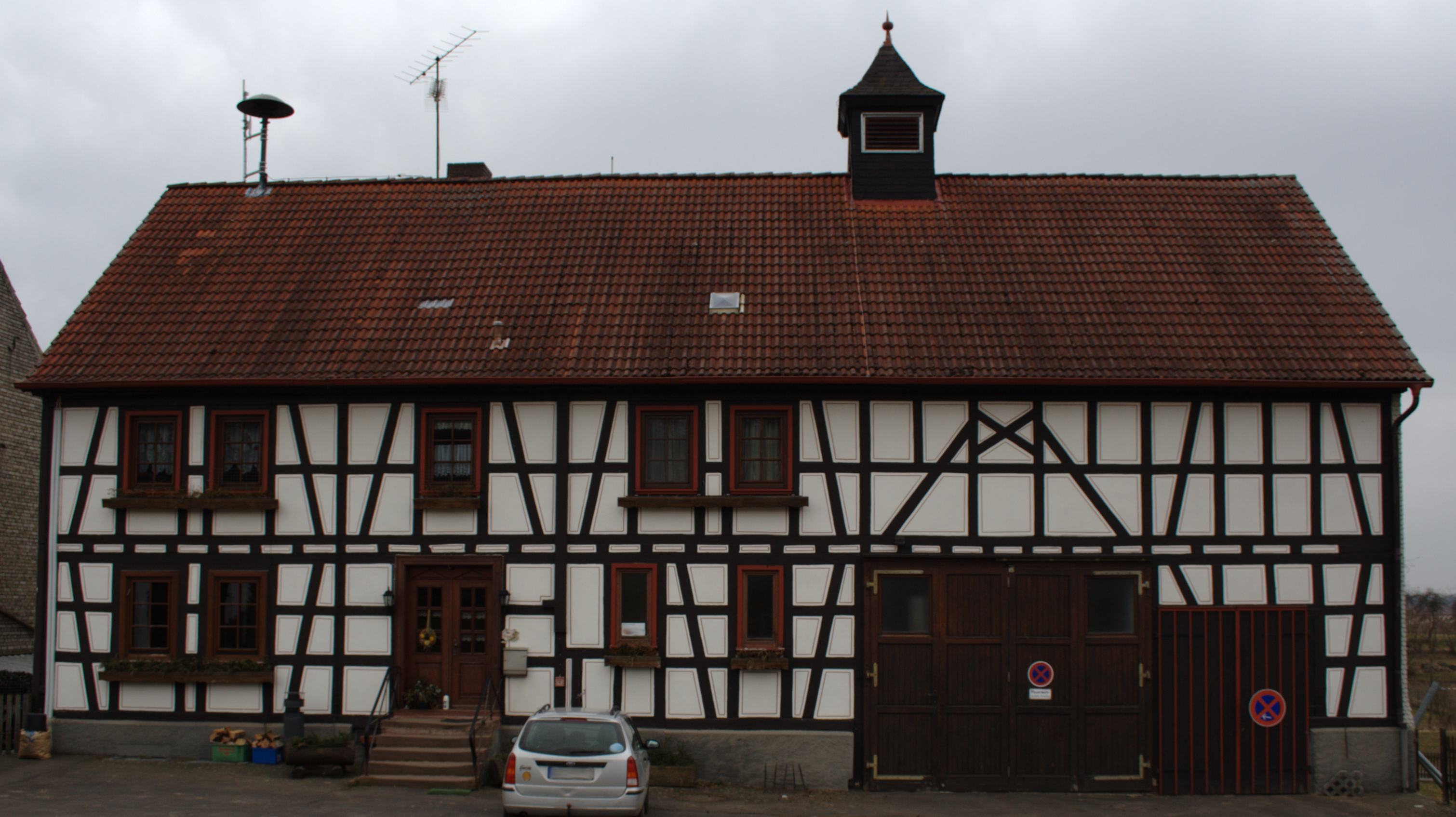 Half-timbered building (community centre) in Nieder-Breidenbach Hauptstrasse 11, Romrod, Hesse, Germany